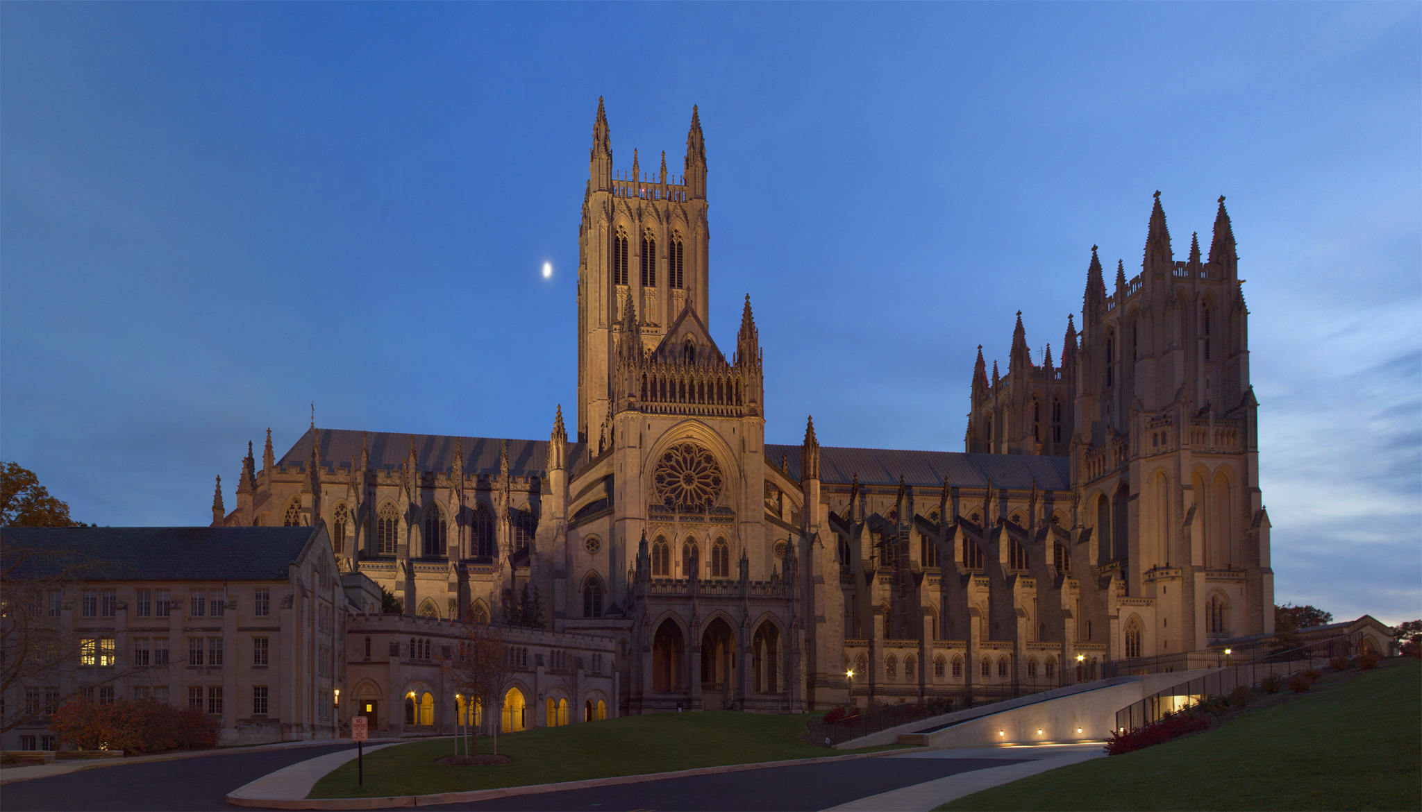 Washington National Cathedral at twilight, view from the north